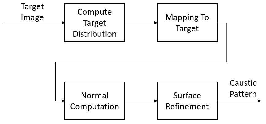 Optimal transport pipeline